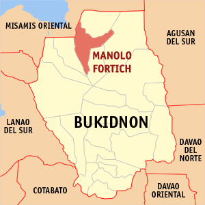 Map of the Bukidnon showing the location of Manolo Fortich